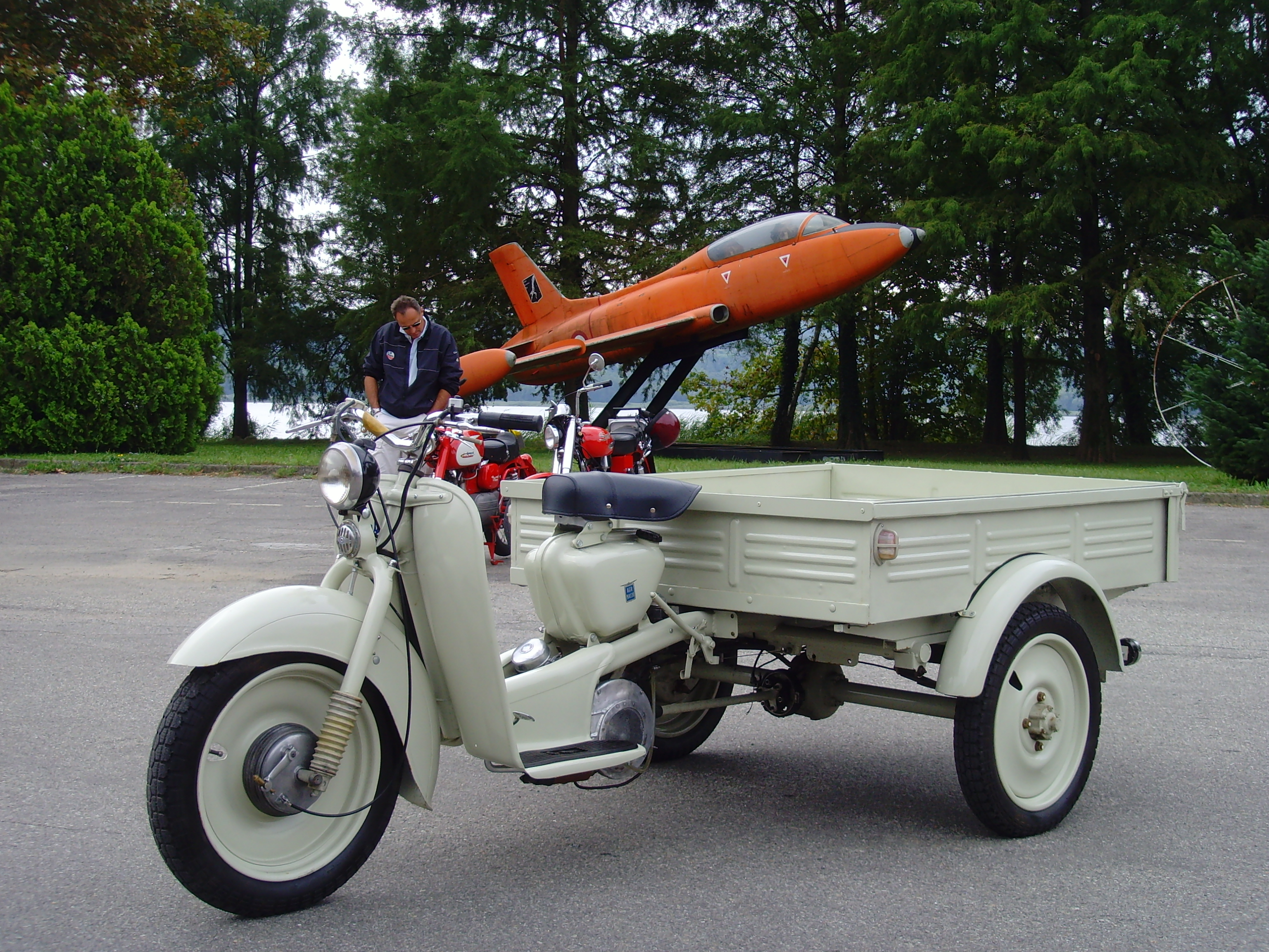 Aermacchi Cavaliere 150, 1955